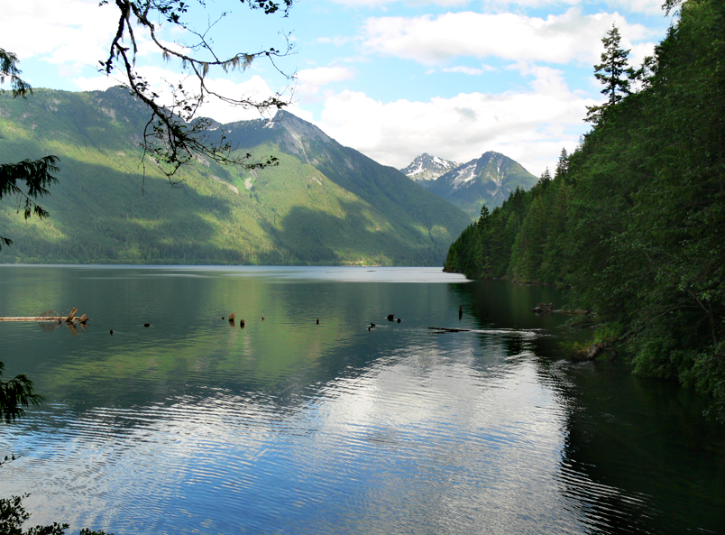 Andrew Houghton. Chilliwack Lake